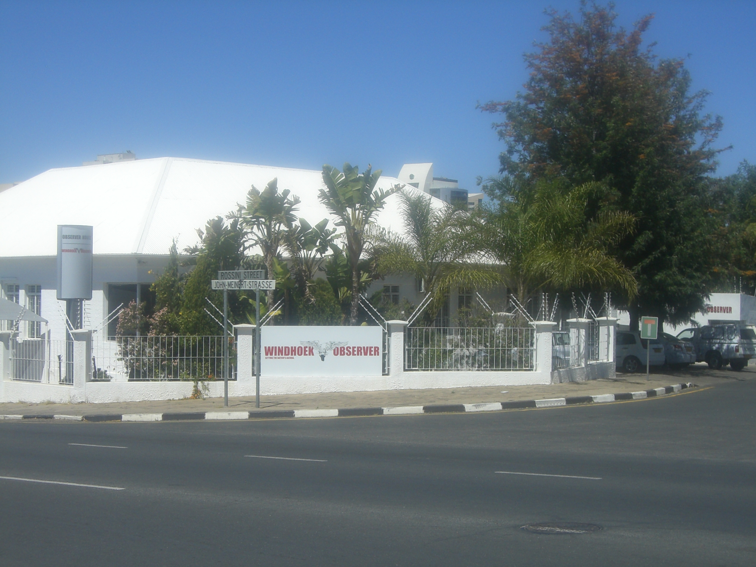 The headquarters of the Windhoek Observer newspaper in Windhoek, John Meinert street